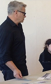 Photograph taken of J. John Priola teaching